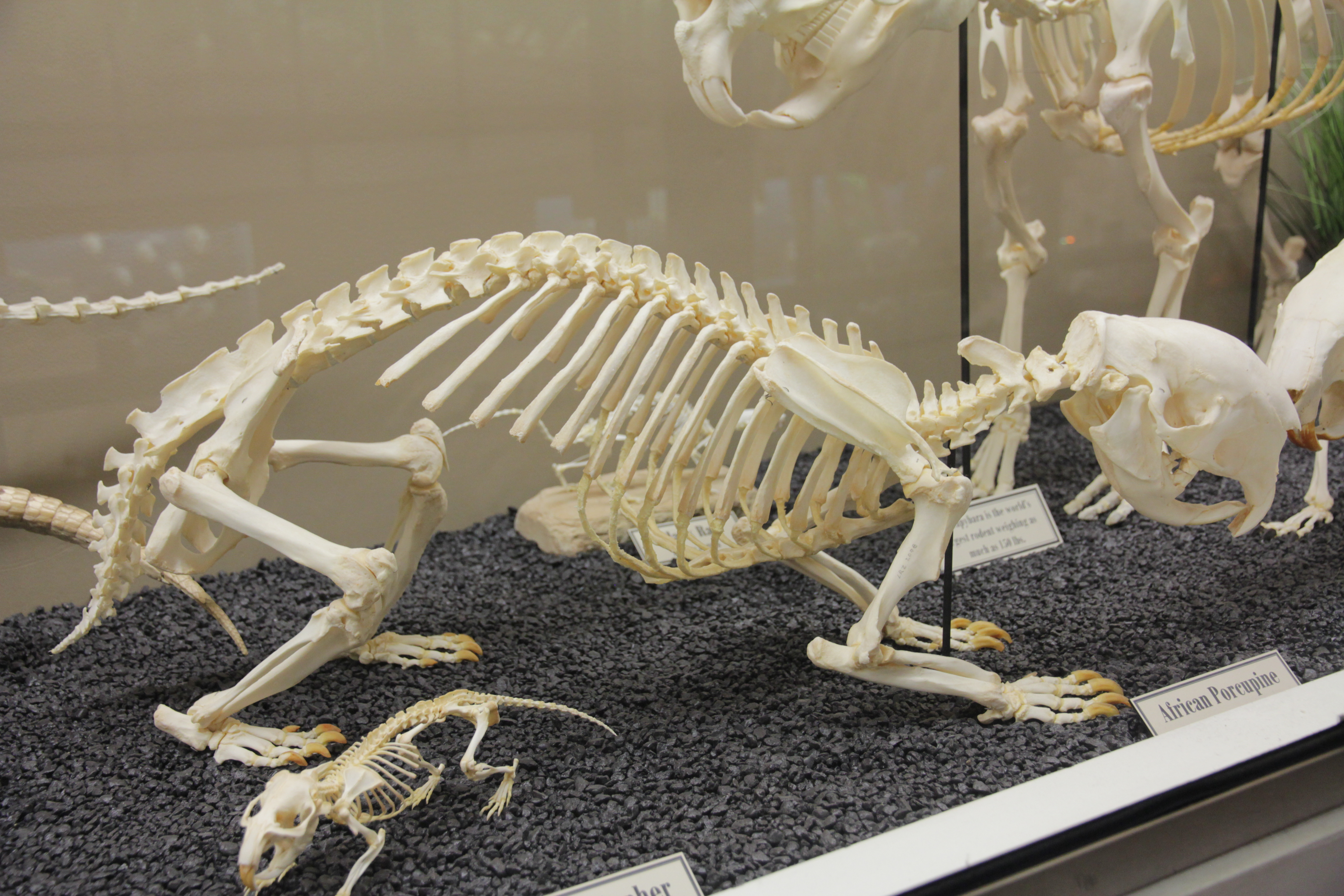 Skeleton of an African Porcupine.